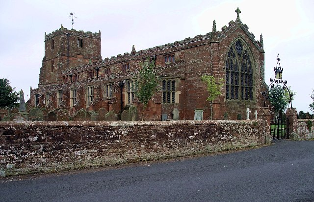 Arthuret Parish Church. Arthuret Church, about half a mile south of Longtown, dates from 1609. The name may be a corruption of "Arthur's Head", the name given to the land on which it is built. The area has many associations with King Arthur, and it is rumoured that his head is buried at Arthuret.